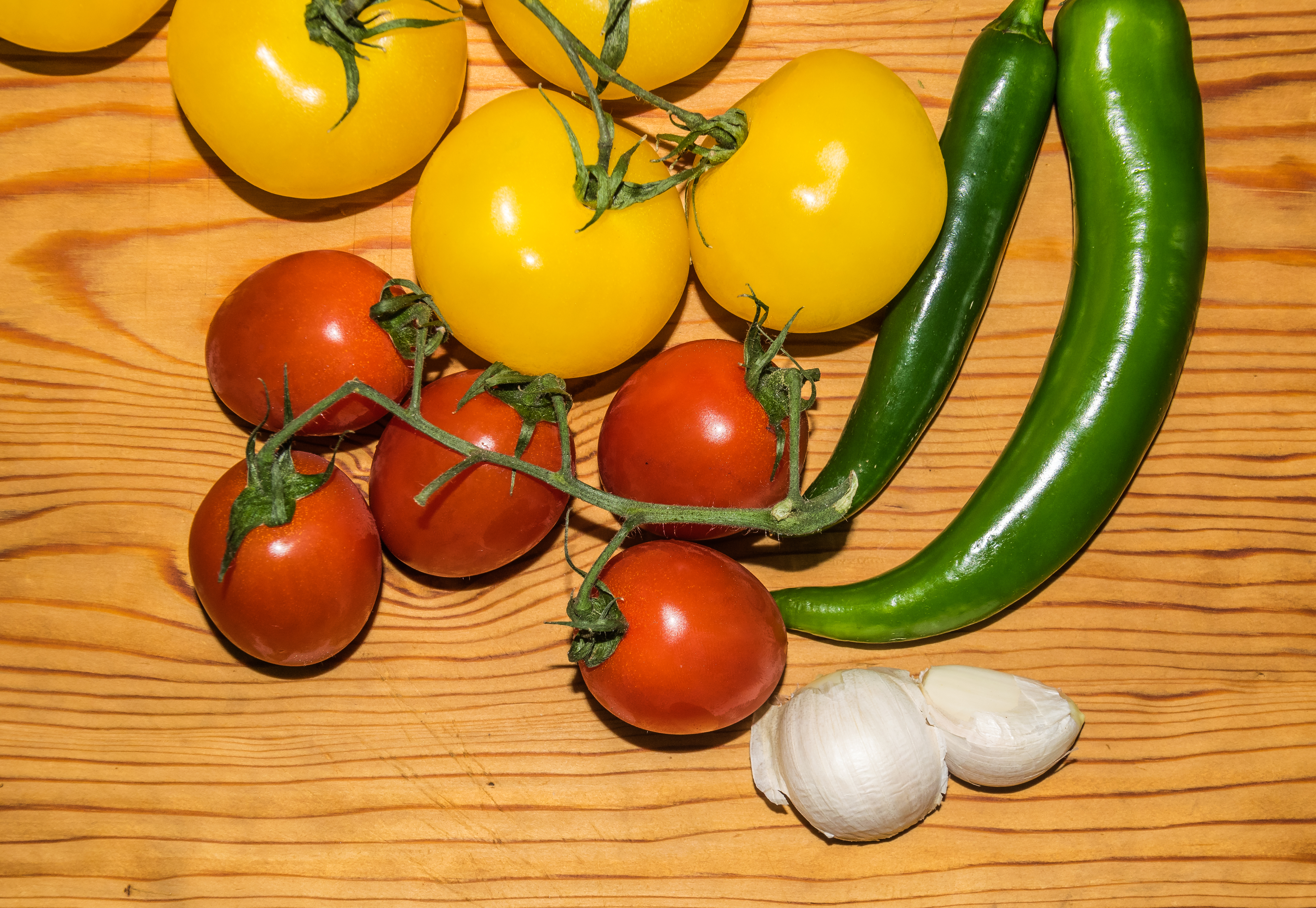 Colorful vegetables in a restaurant in Saint-Cyprien-sur-Dourdou, Aveyron, France